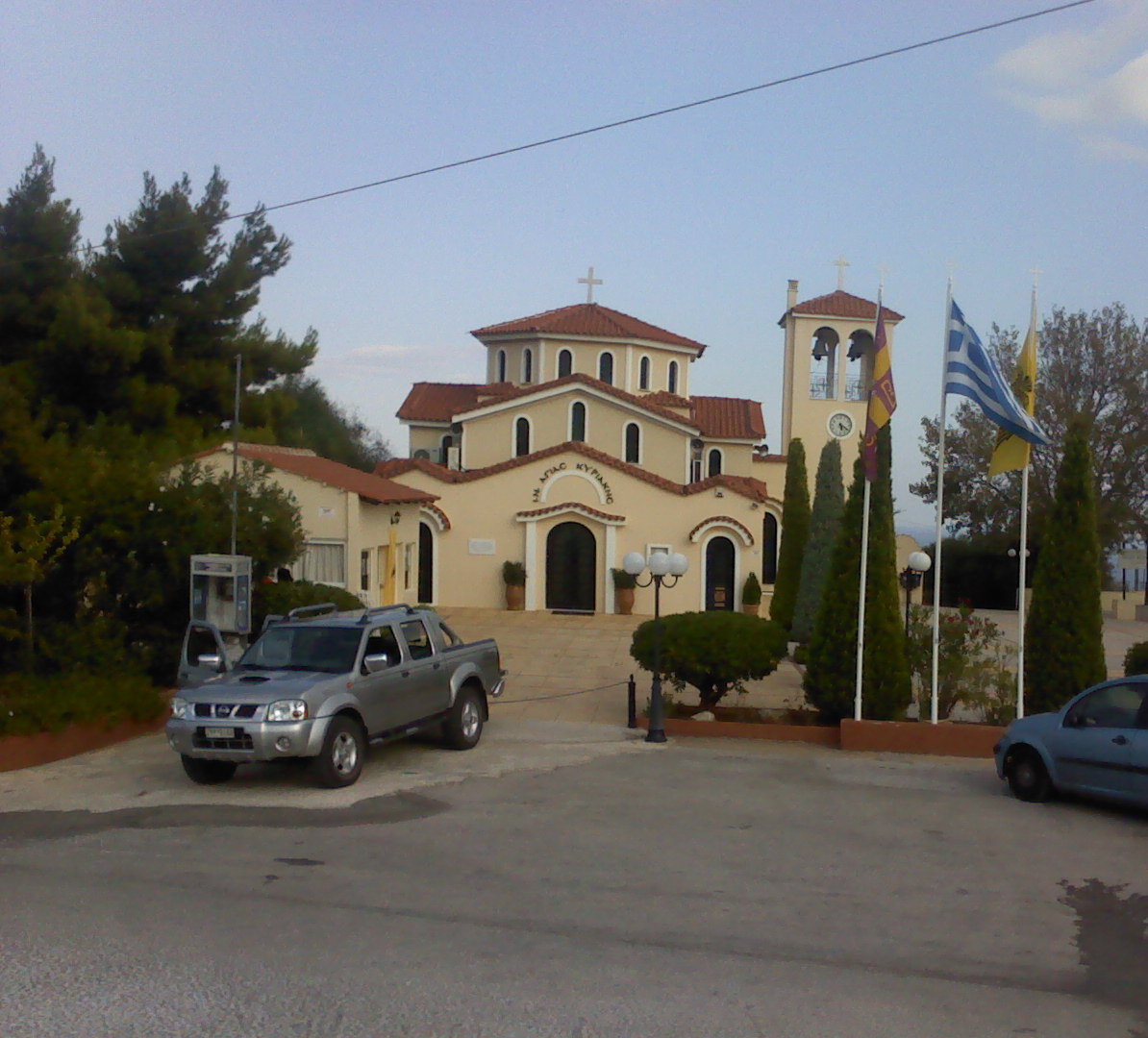 Agia Kiriaki Spata